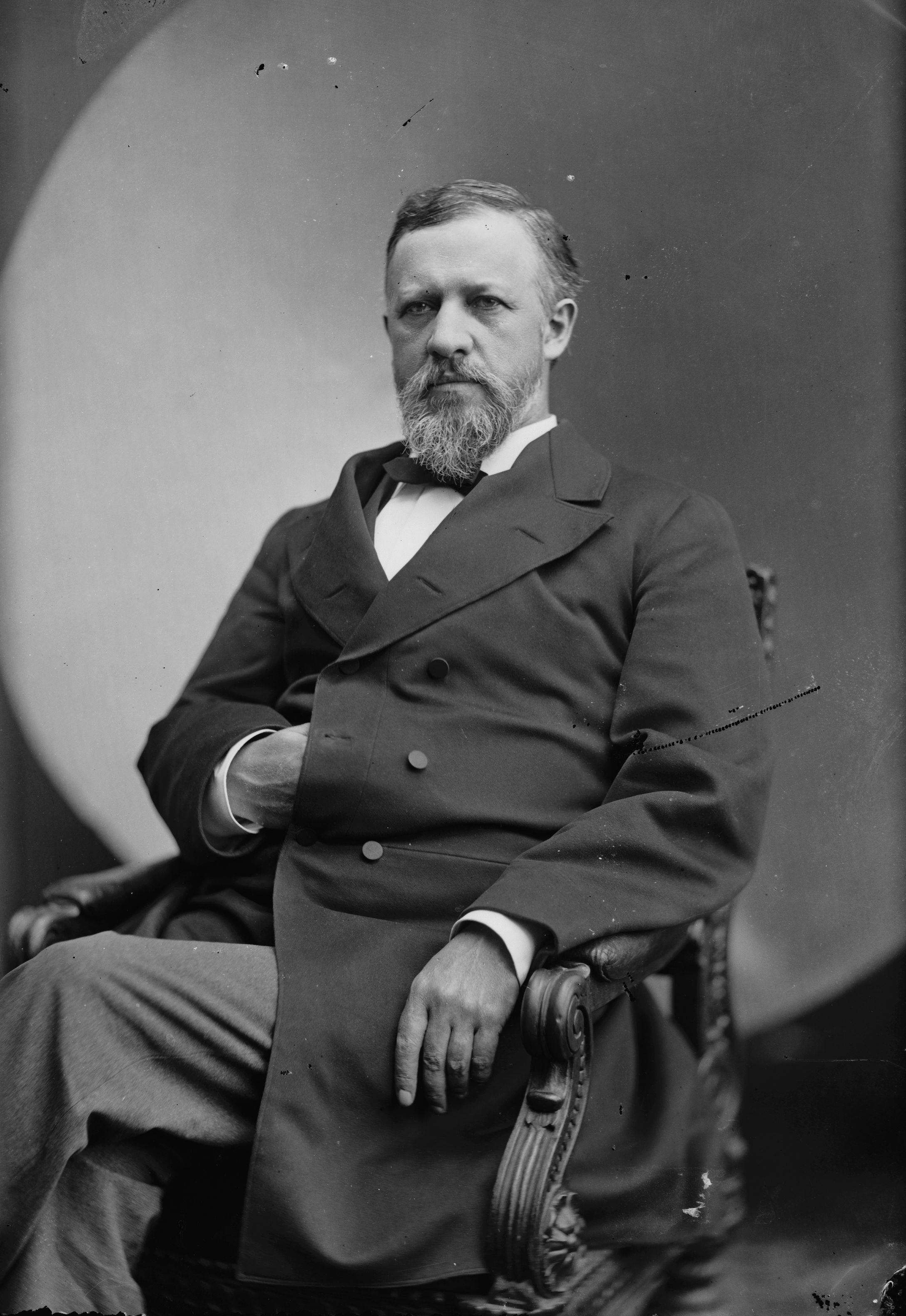 Hon. Thomas Ewing, Jr. Delegate to the Peace Convention held in Wash., D.C. in 1861